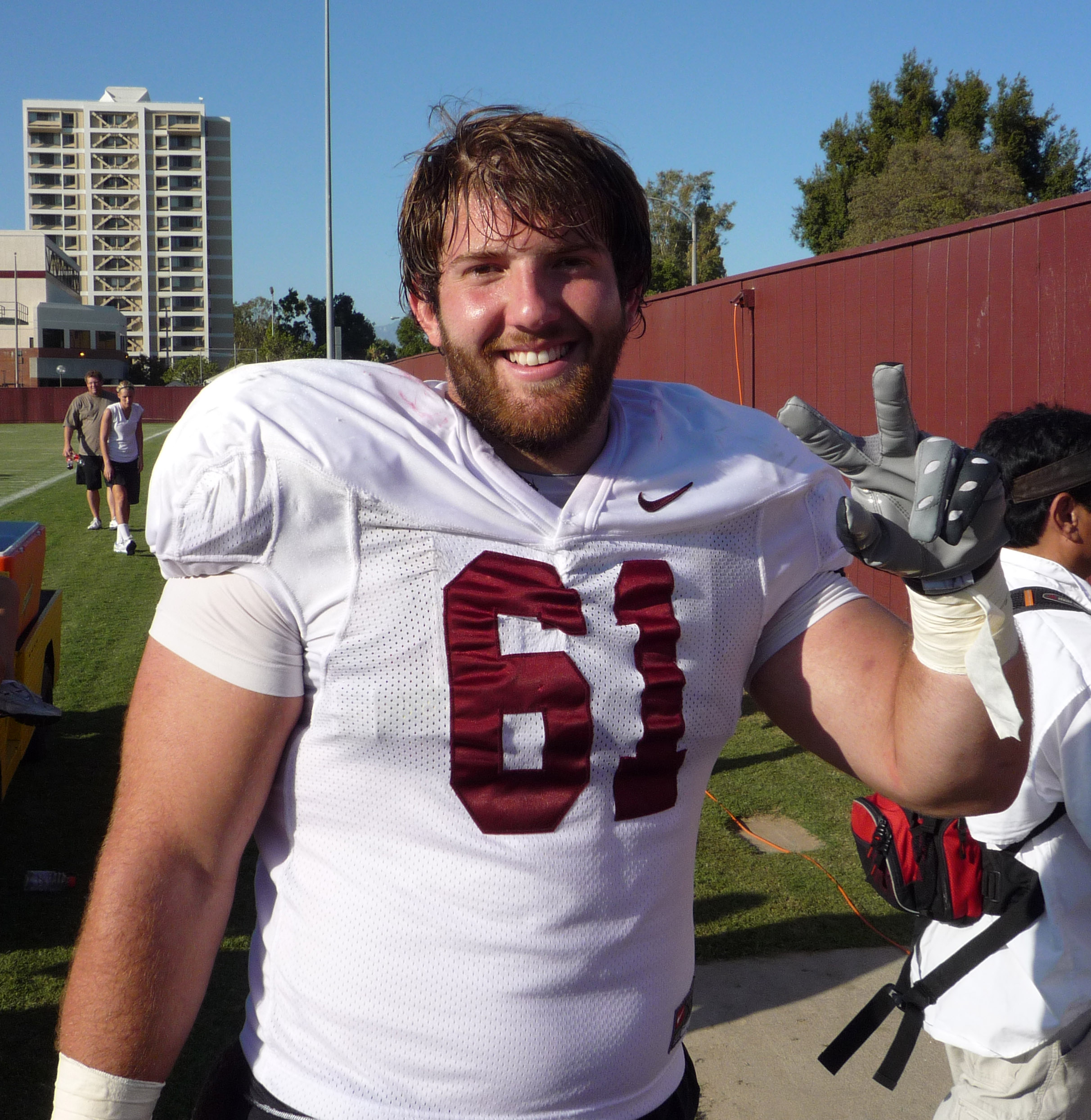 Center Kristofer O'Dowd, after a fall practice preceding the 2008 USC Trojans football season. He is making the traditional USC Trojan "V" for victory hand sign.